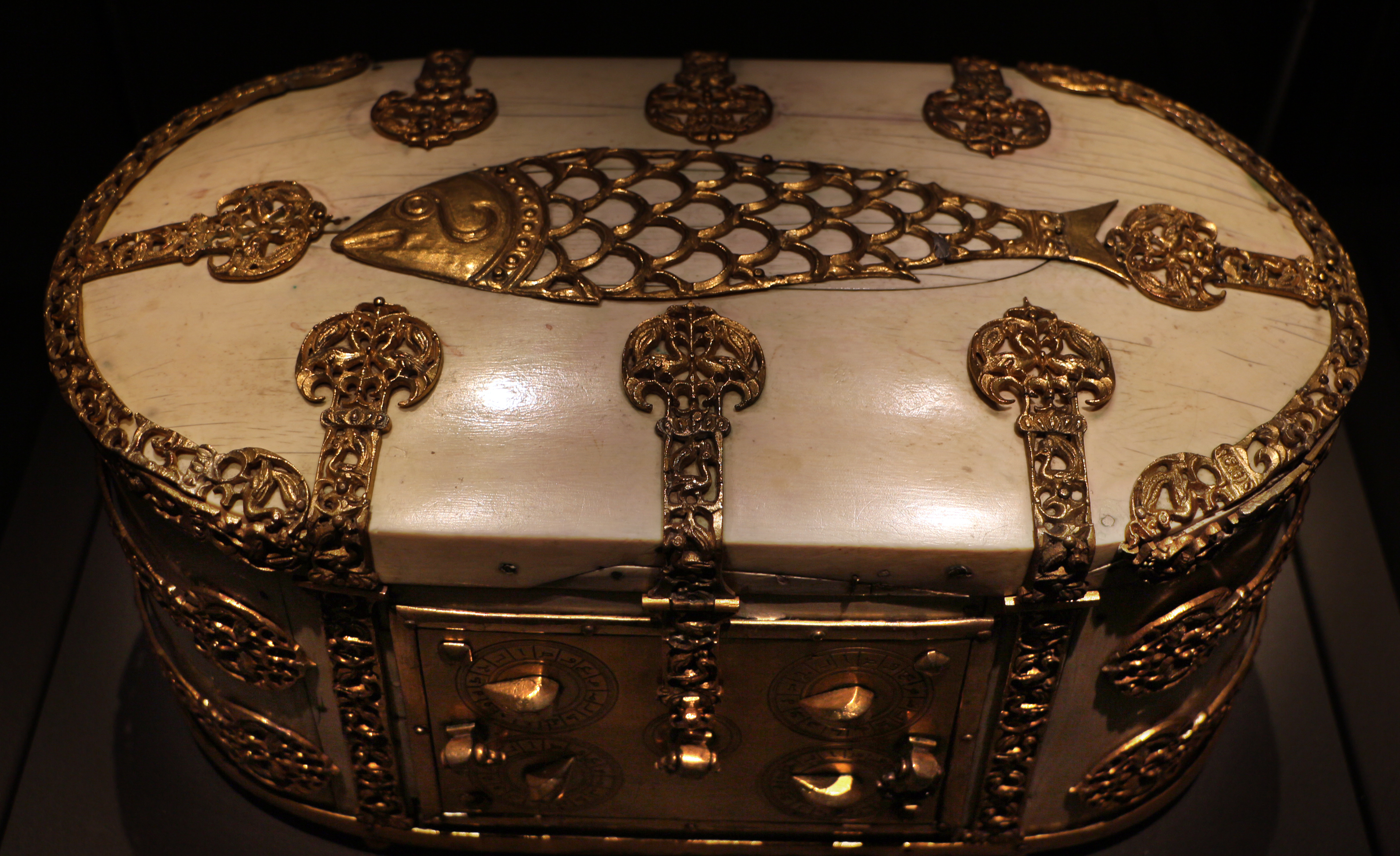 Ivory in the Treasury of Sint-Servaasbasiliek